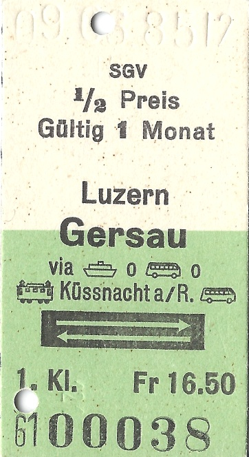 Edmondson ticket issued by the Lake Lucerne Navigation Company (SGV) in 1985. Valid for a 1st class return journey from Luzern to Gersau using either a boat connection, the bus, or railway (via Küssnacht) and bus.